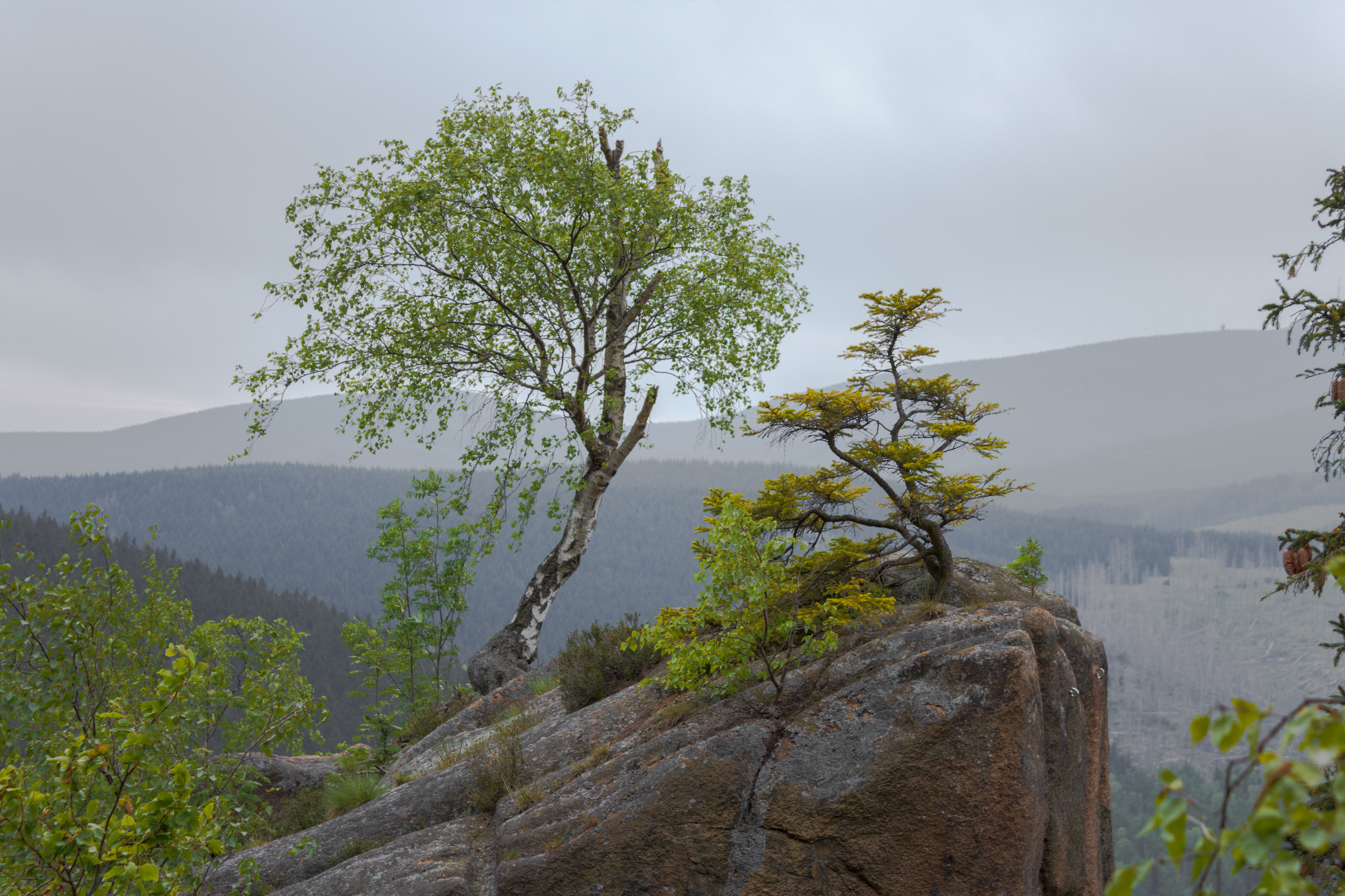 Rabenklippe, Harz, Lower Saxony, Germany